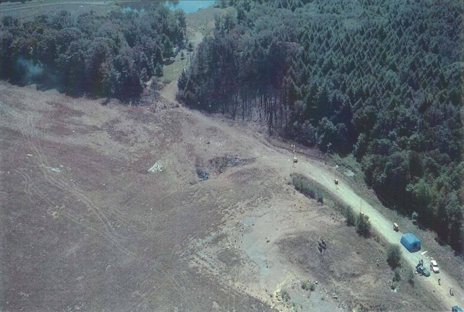 Photograph of the scene in Somerset County, Pennsylvania, where Flight 93 crashed.